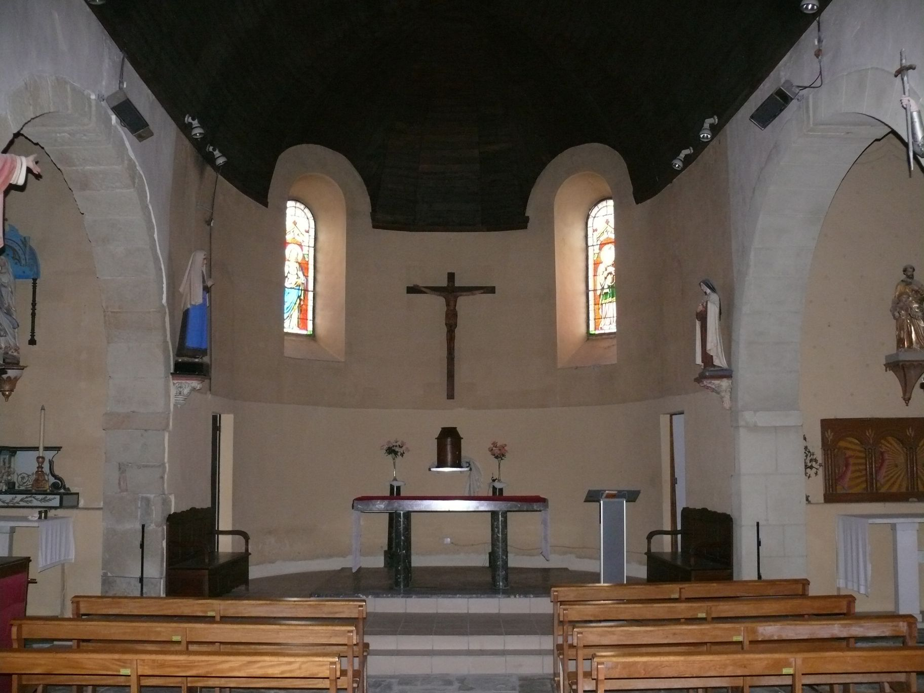 Saint-Savior's church in Sus (Pyrénées-Atlantiques, France).